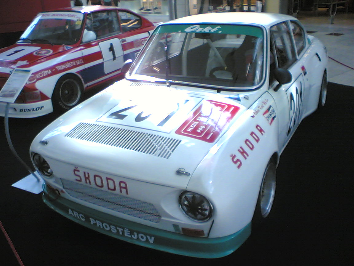 Škoda 130 RS (Vintage Skoda racers on display in a mall in Brno, Czech Republic)Vintage Skoda racing cars